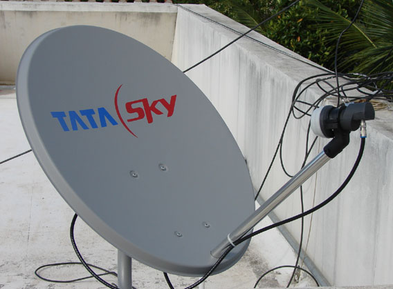 This is Tata sky dish image